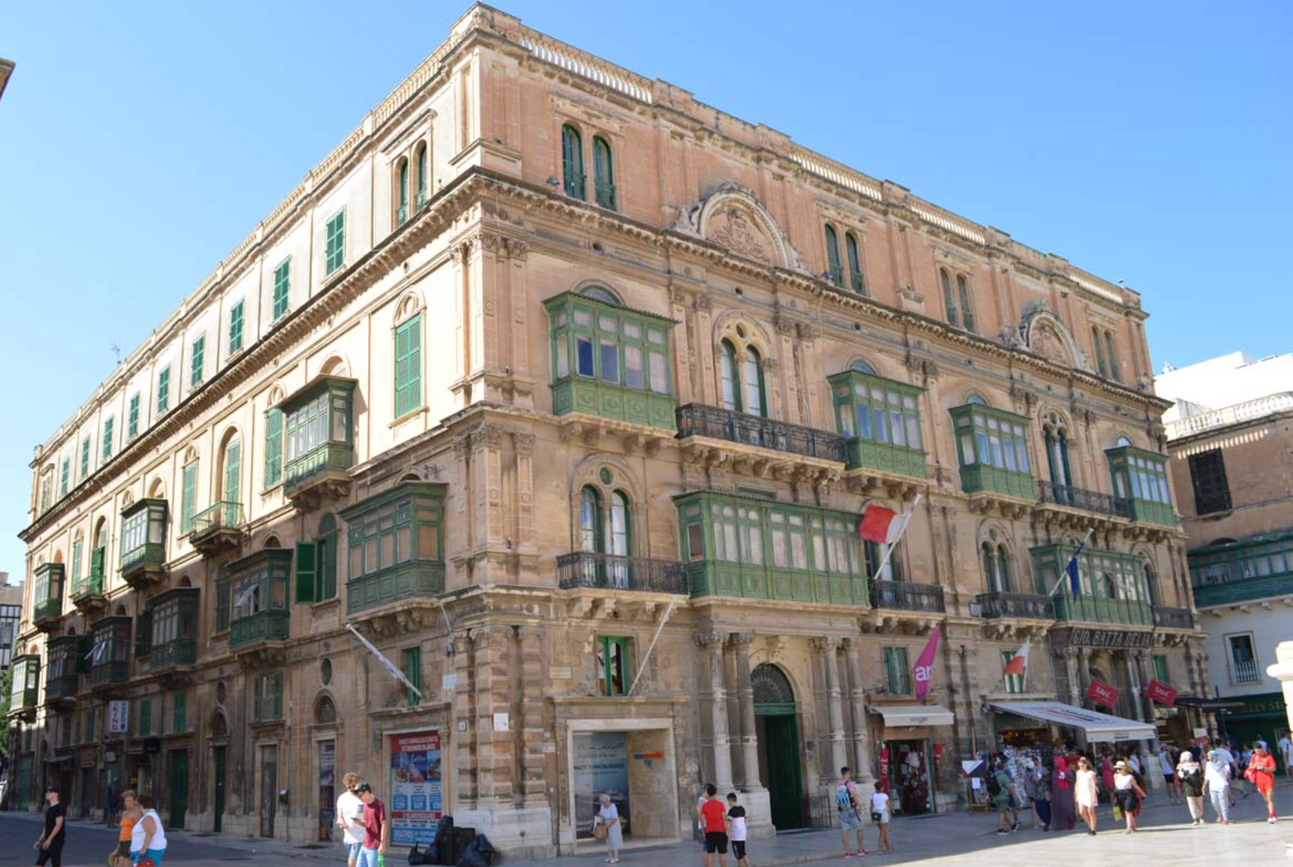 Palazzo Ferreria Government Ministry